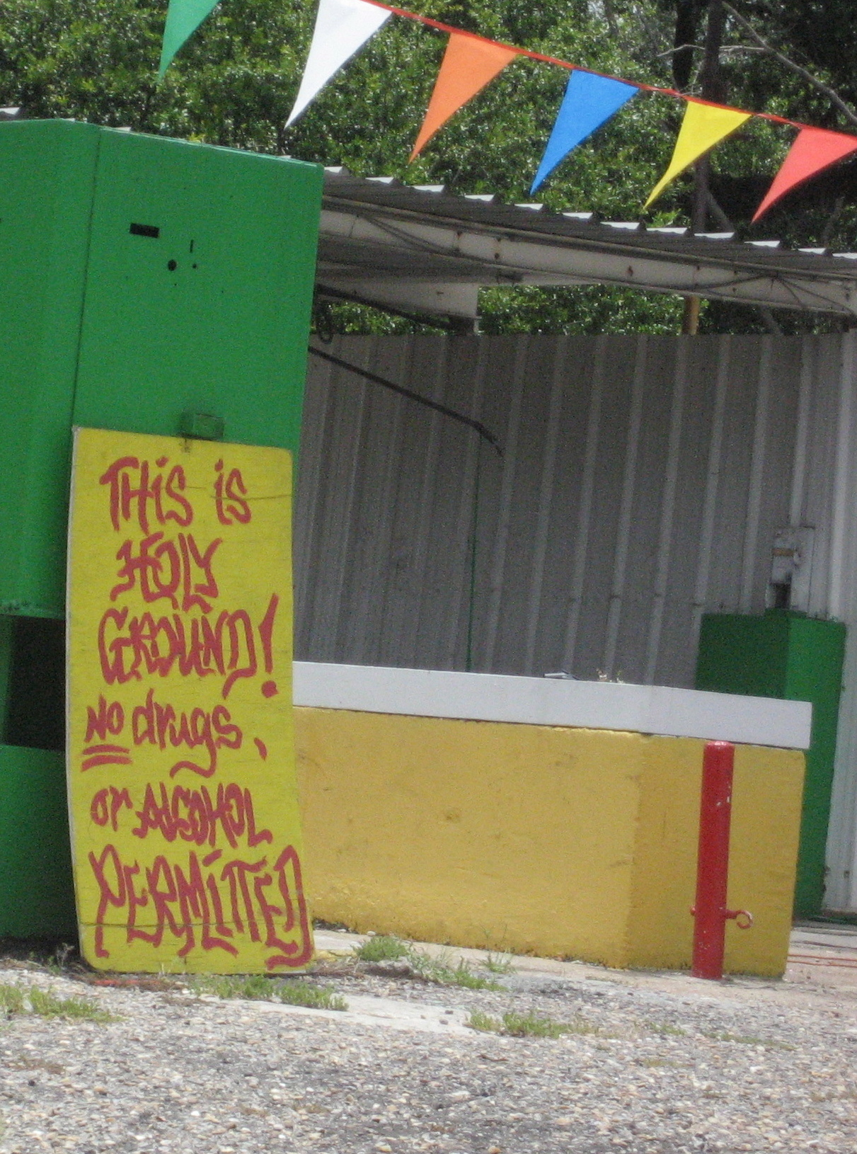 New Orleans: Sign at tire repair/car wash shop on Claiborne Avenue, 7th Ward. Sign proclaims location to be "Holy Ground", prohibiting use of drugs and alcohol.